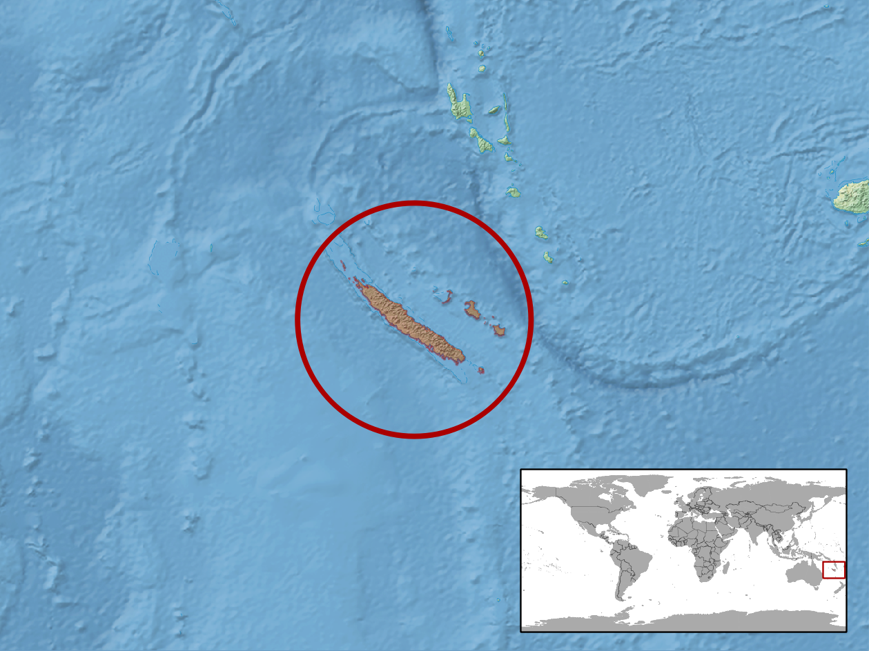 geographic distribution of Lioscincus nigrofasciolatum